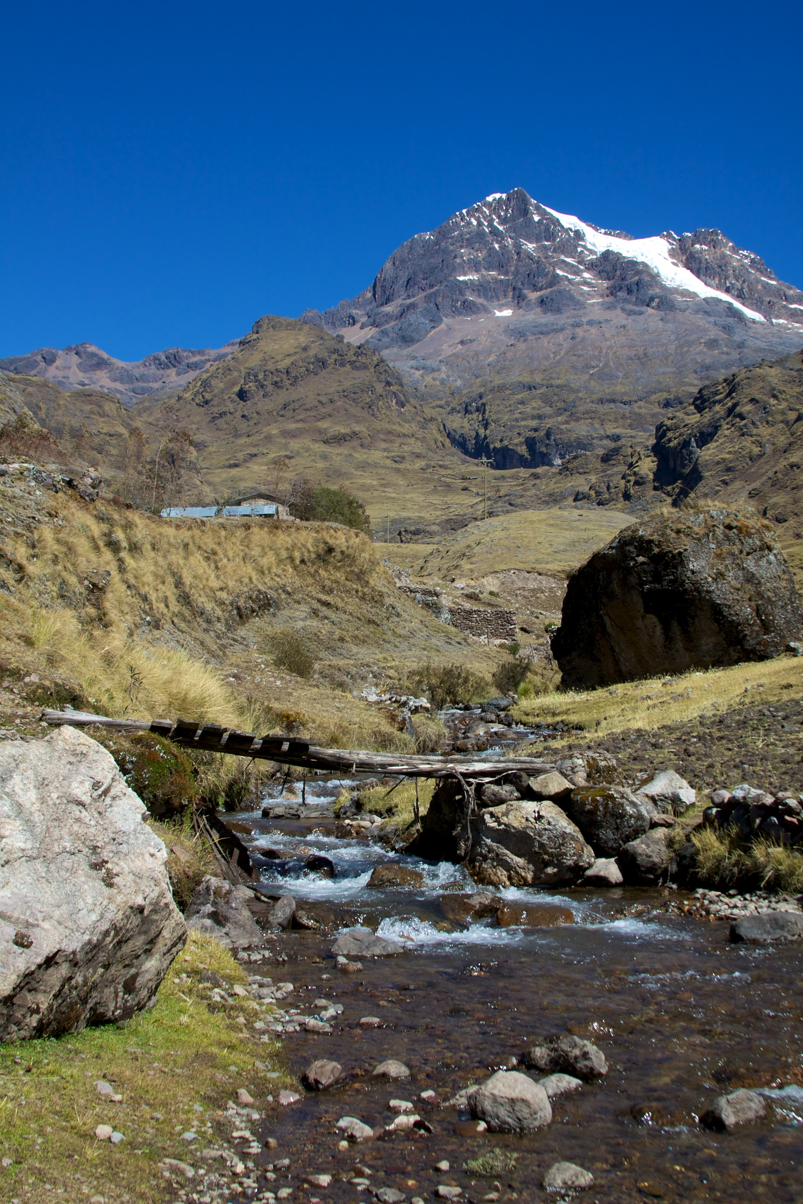 Peru - Lares Trek 045 - stream crossing